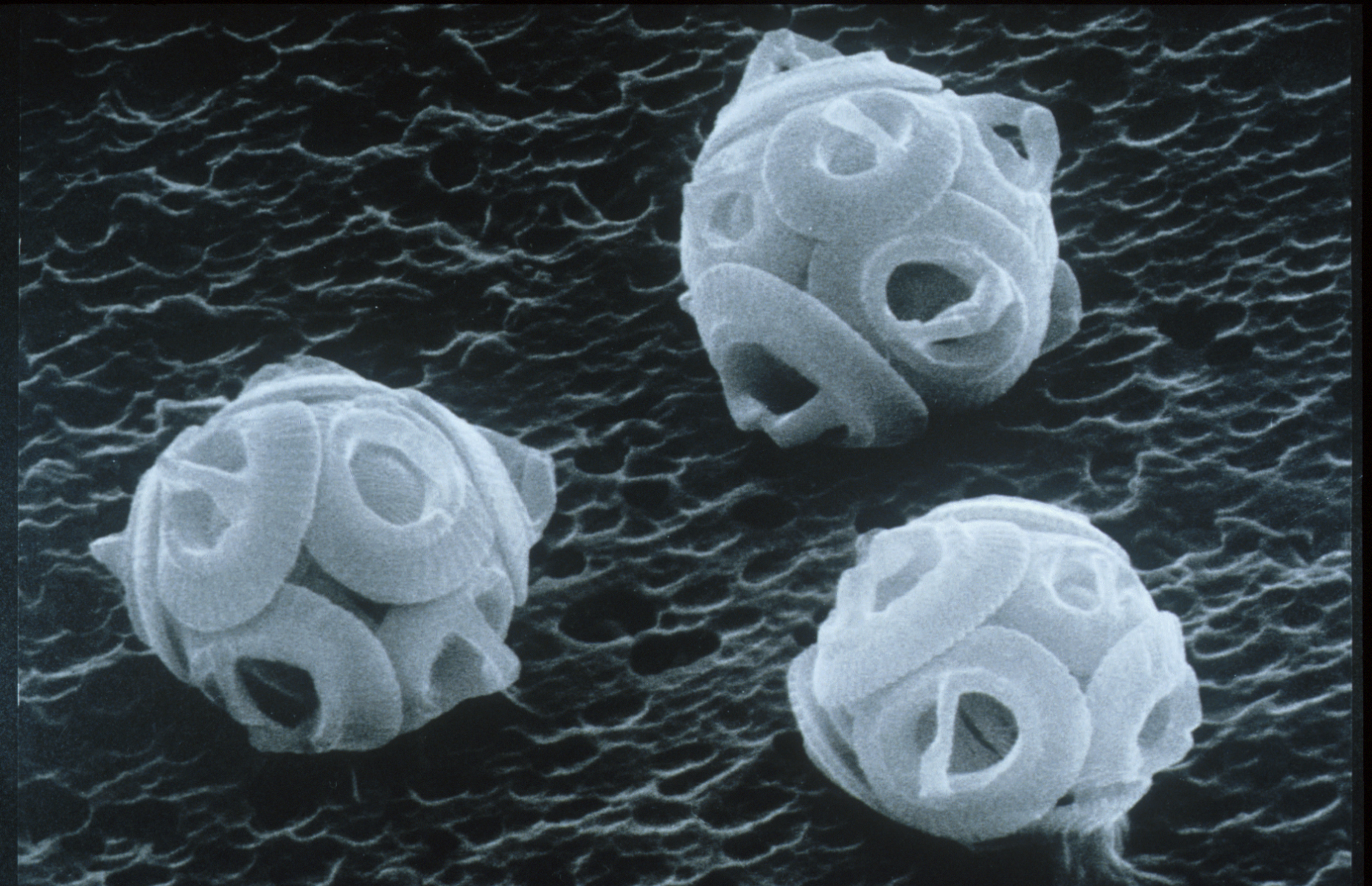 Scanning electron microscope image of a Coccolithophorid